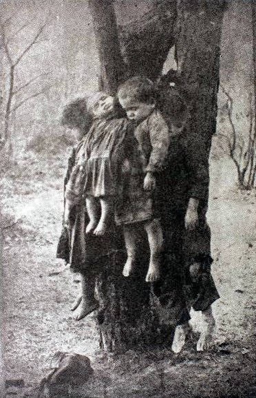 Gypsy children murdered by their mother - Marianna Dolińska